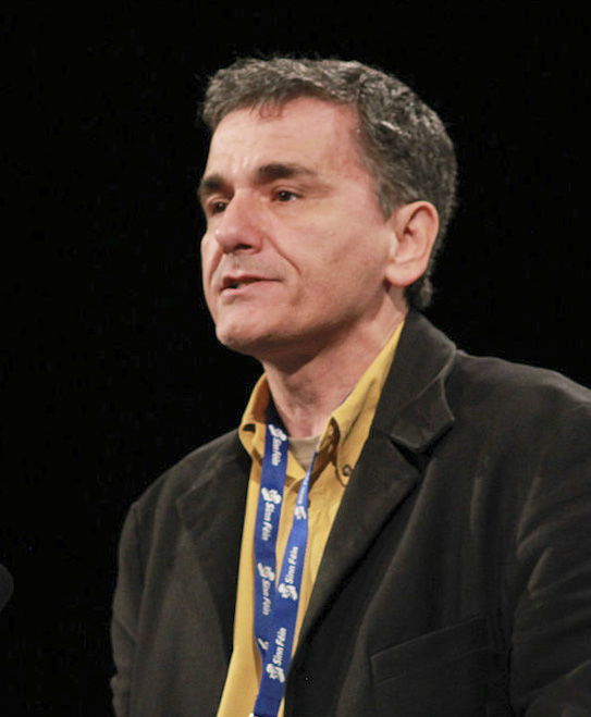 Euclid Tsakalotos, Greek Finance Minister at a meeting with Sinn Féin in Ireland in March 2015